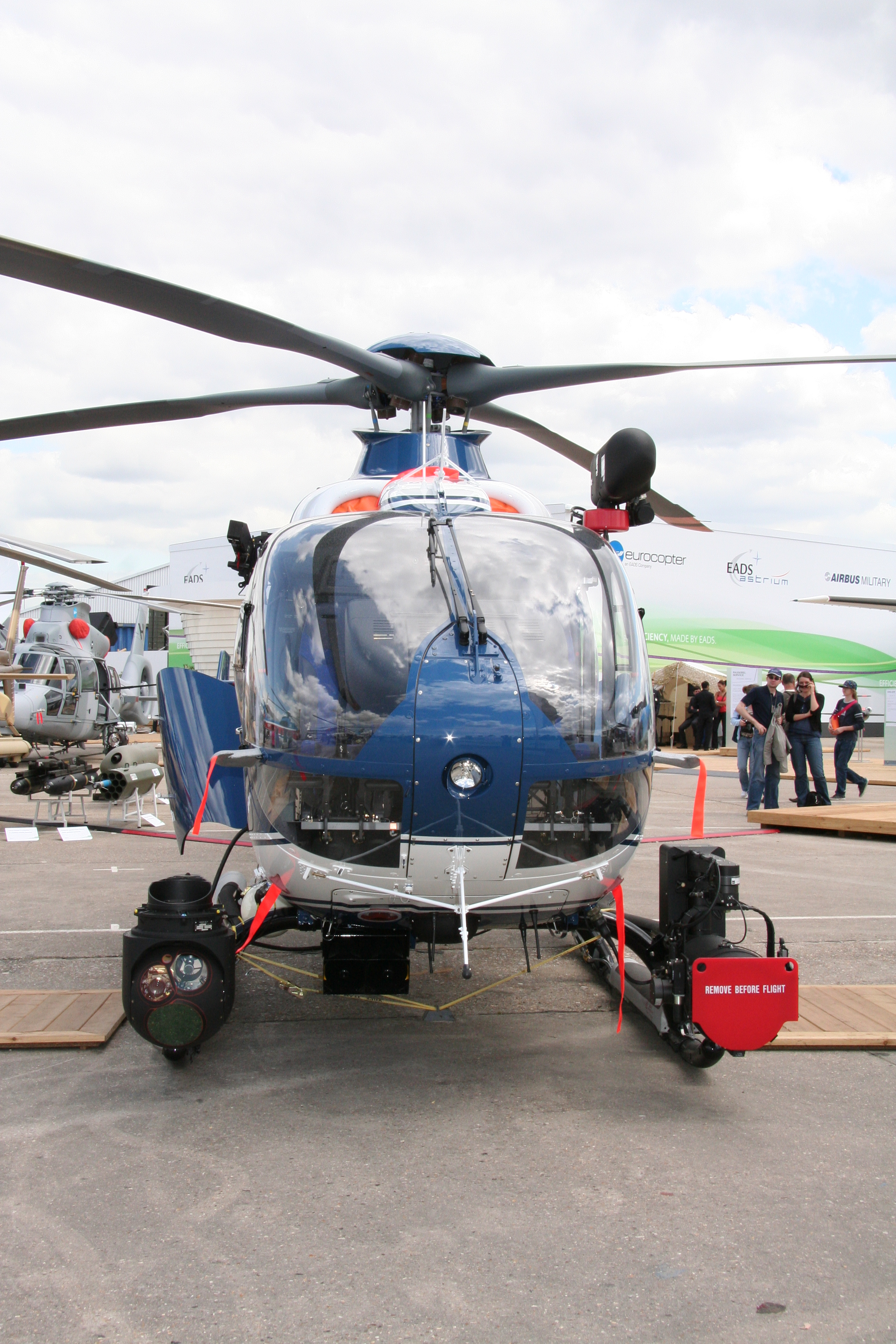 Eurocopter EC 135 P2i / T2i - Paris Air Show 2009